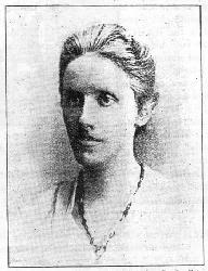 Annie Scott Dill Maunder (1868–1947). Reproduced from The Irish Presbyterian, 10, no. 1, January 1904.